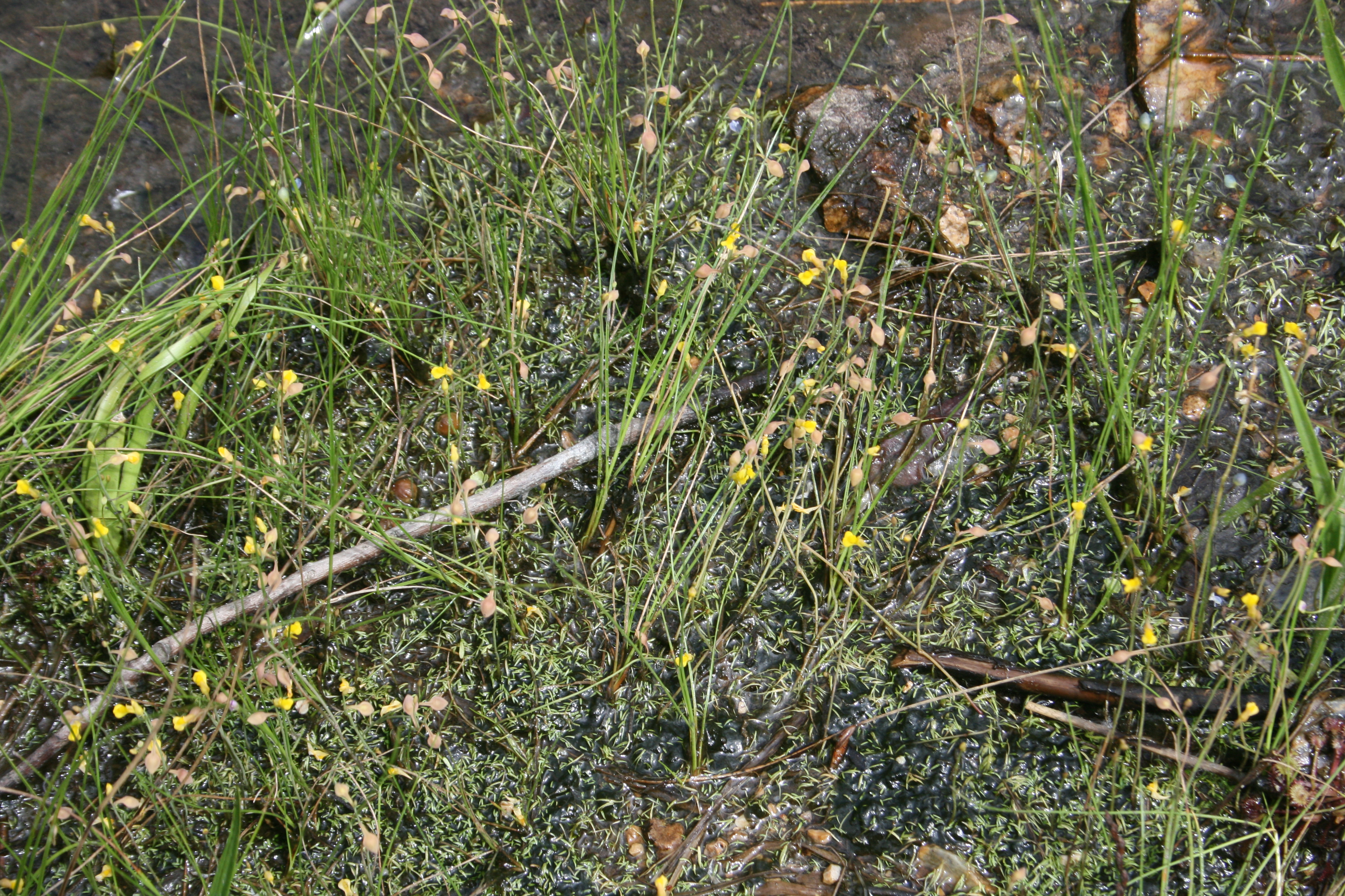 Utricularia bifida in Imō Wetland